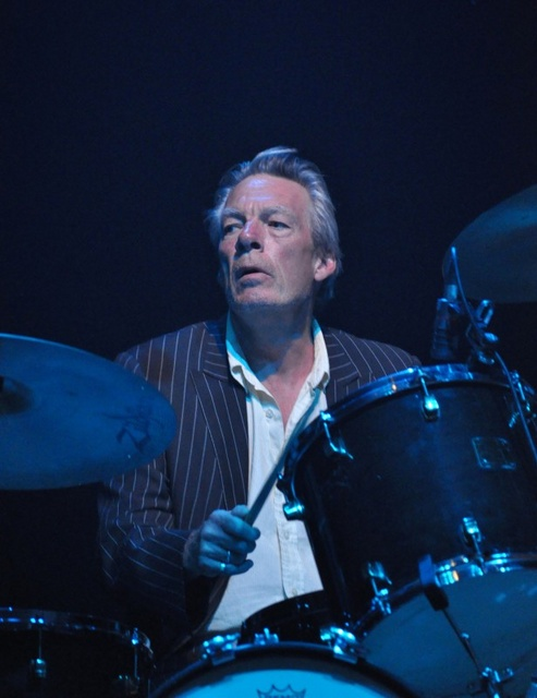 Andrew Ranken, Milk club, Moskau 2010